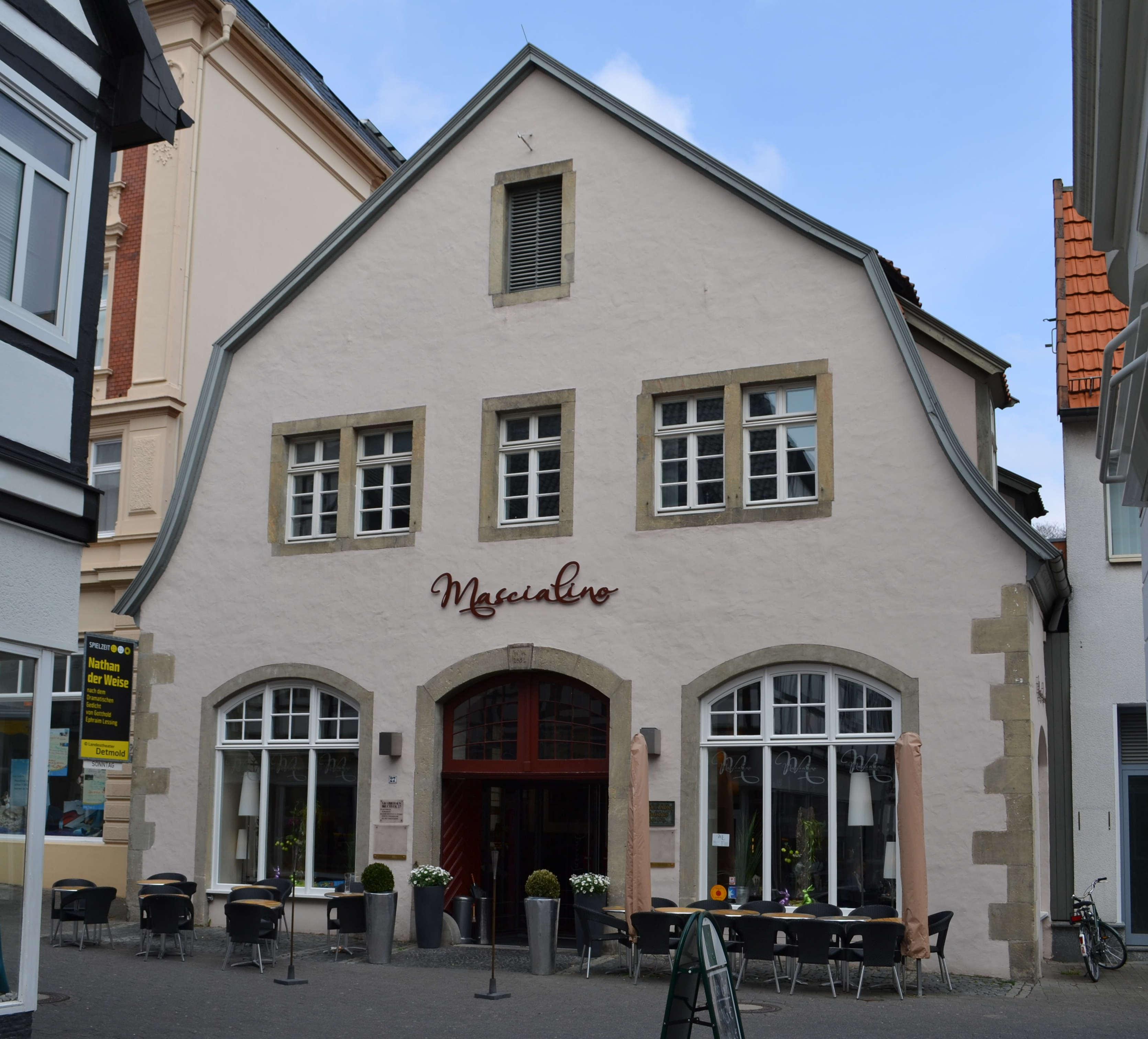 Birthplace of German dramatist Christian Dietrich Grabbe